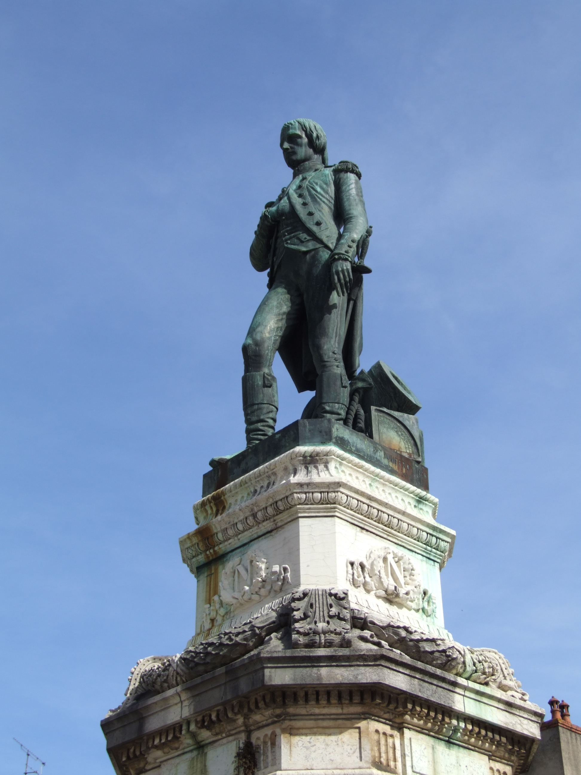 Auxonne, Burgundy, FRANCE